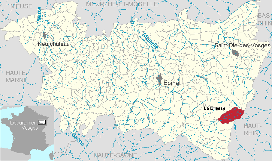 La Bresse in the department of Vosges, Lorraine, France